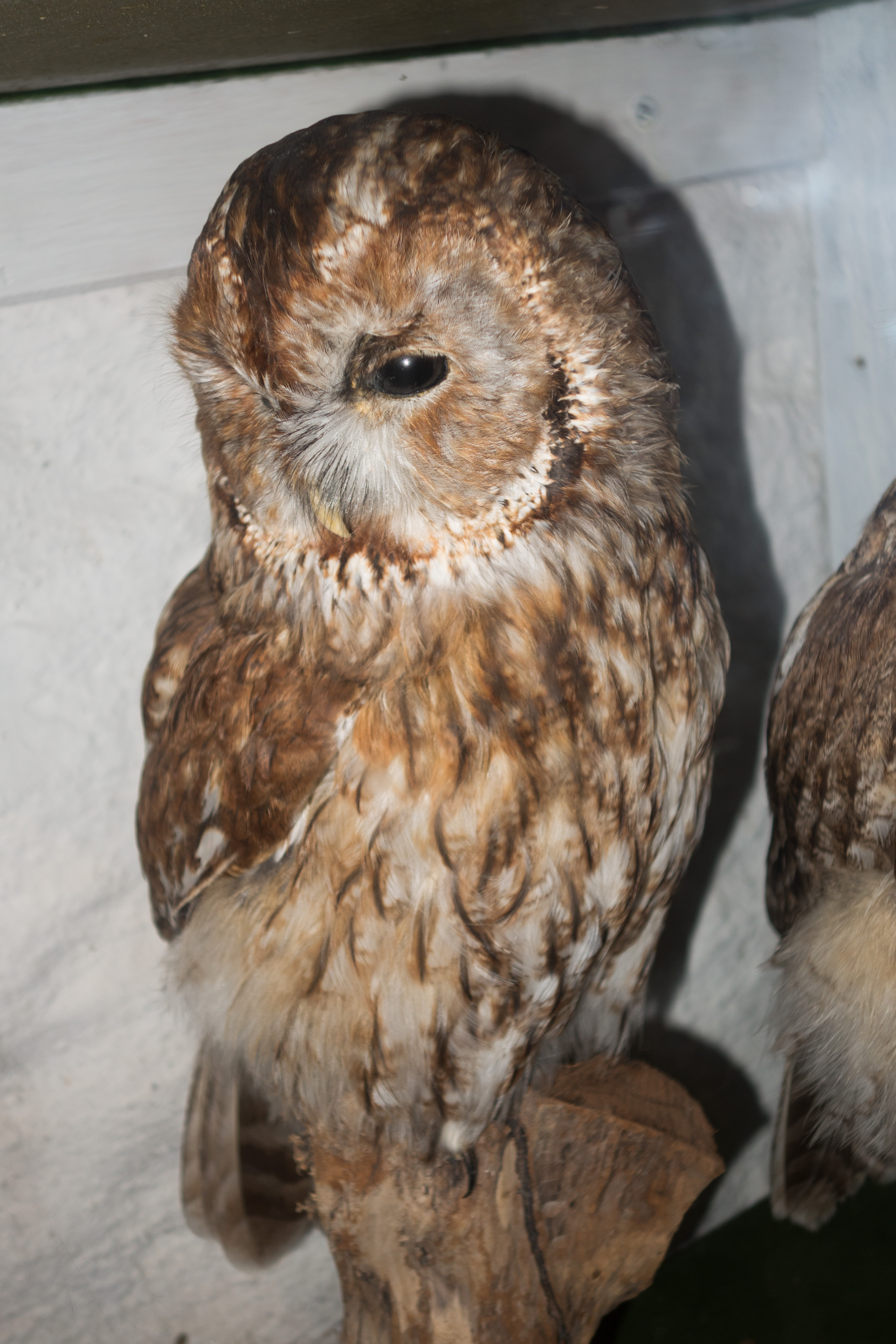 Austria